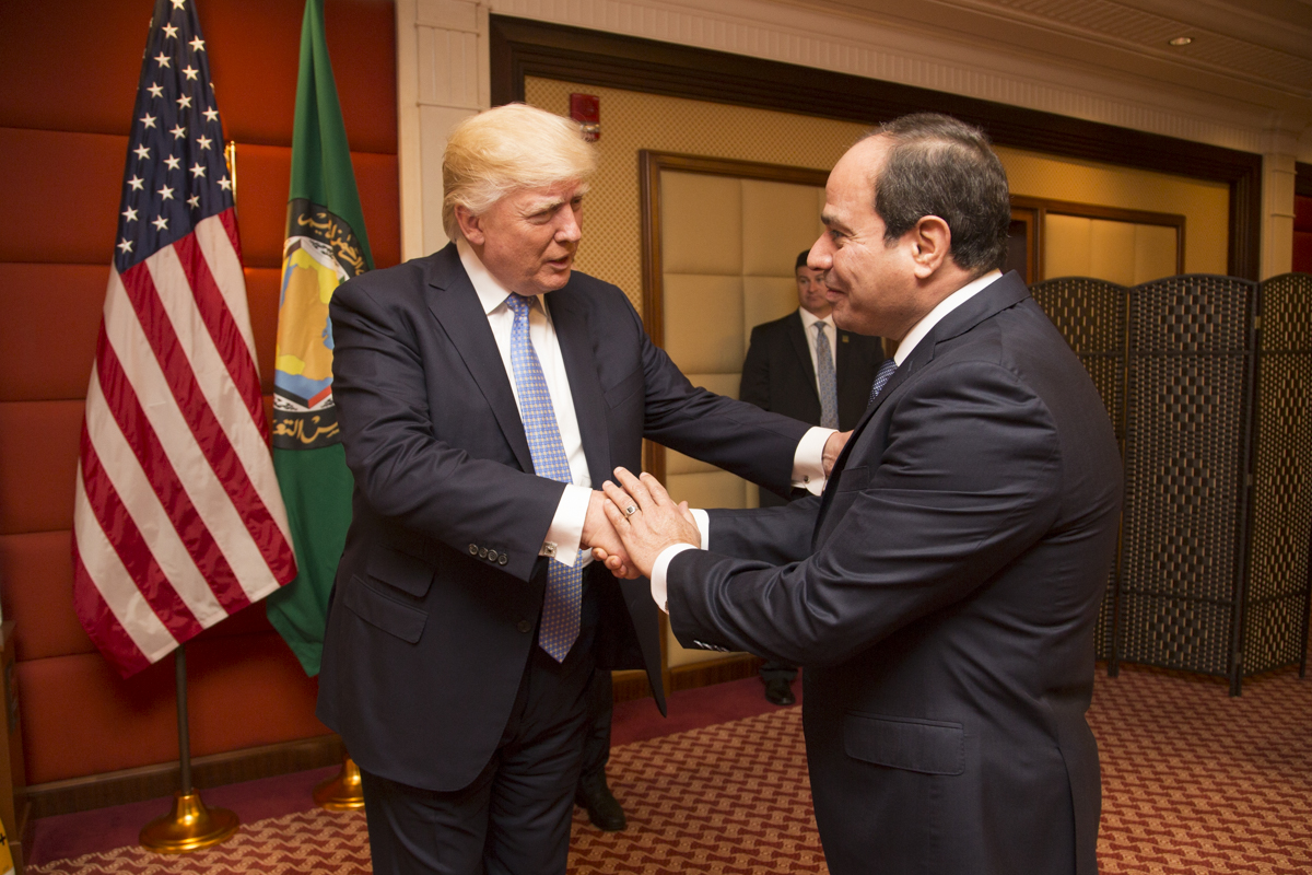 President Donald Trump greets the President of Egypt, Abdel Fattah Al Sisi, prior to their bilateral meeting, Sunday, May 21, 2017, at the Ritz-Carlton Hotel in Riyadh, Saudi Arabia. (Official White House Photo by Shealah Craighead)